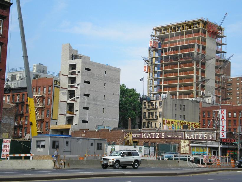 The pace of gentrification on the Lower East Side is shown by the famous Katz's deli, which is now dwarfed by development. New York City